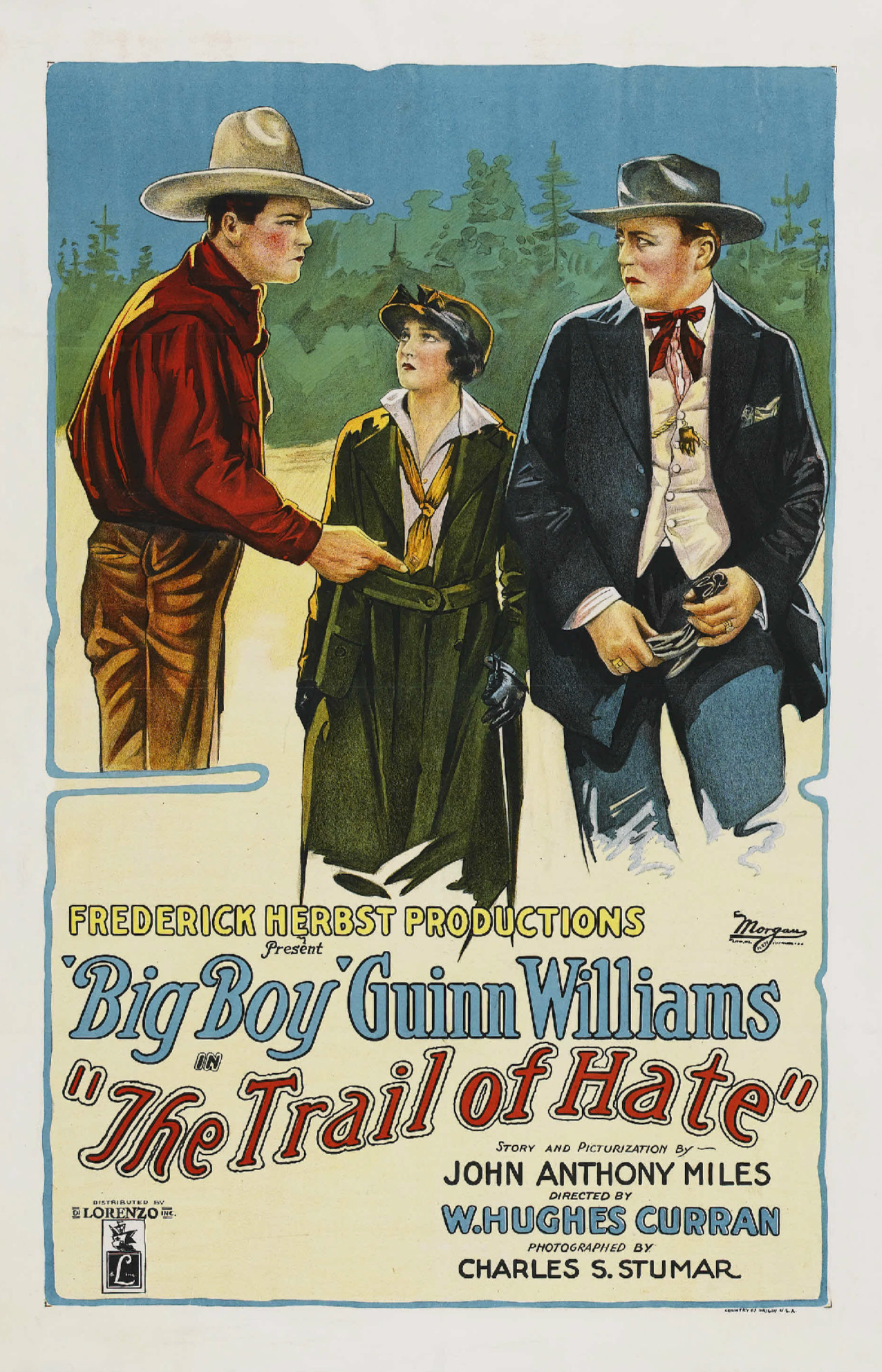 Poster for the American western film The Trail of Hate (1922) with Guinn "Big Boy" Williams, Molly Malone, and J. Gordon Russell.